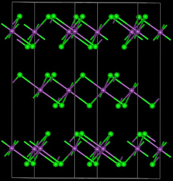 YBr3 structure Journal = JOURNAL OF THE CHEMICAL SOCIETY, SECTION A: INORGANIC, PHYSICAL, THEORETICAL, Year = 1968, Page = 1889–1894, Title = The Preparation and Crystallographic Properties of Certain Lanthanide and Actinide Tribromides and Tribromide Hexahydrates, Authors = Brown D., Fletcher S., Holah D.G.